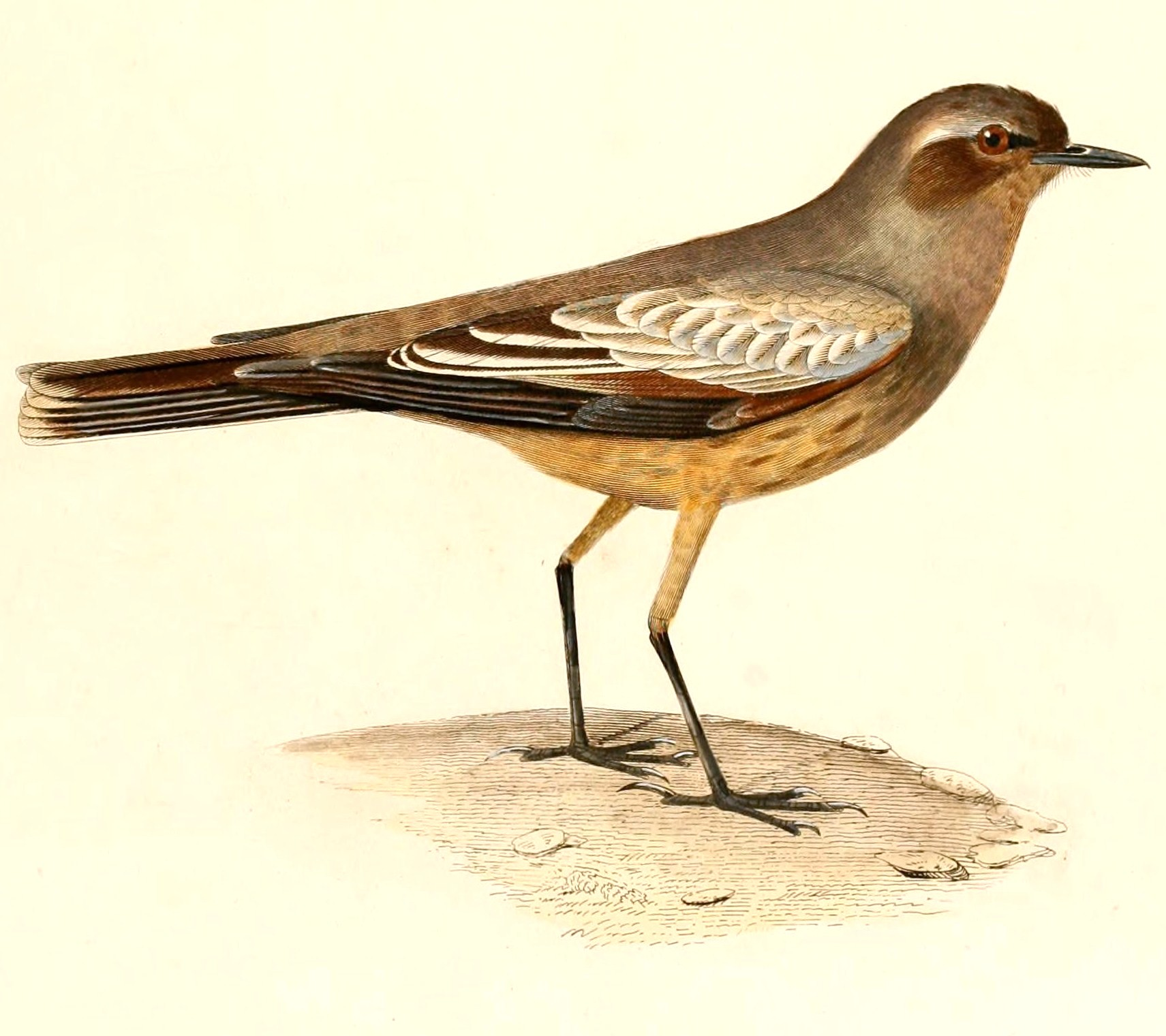 « Pepoaza variegata » = Neoxolmis rufiventris (Chocolate-vented Tyrant)